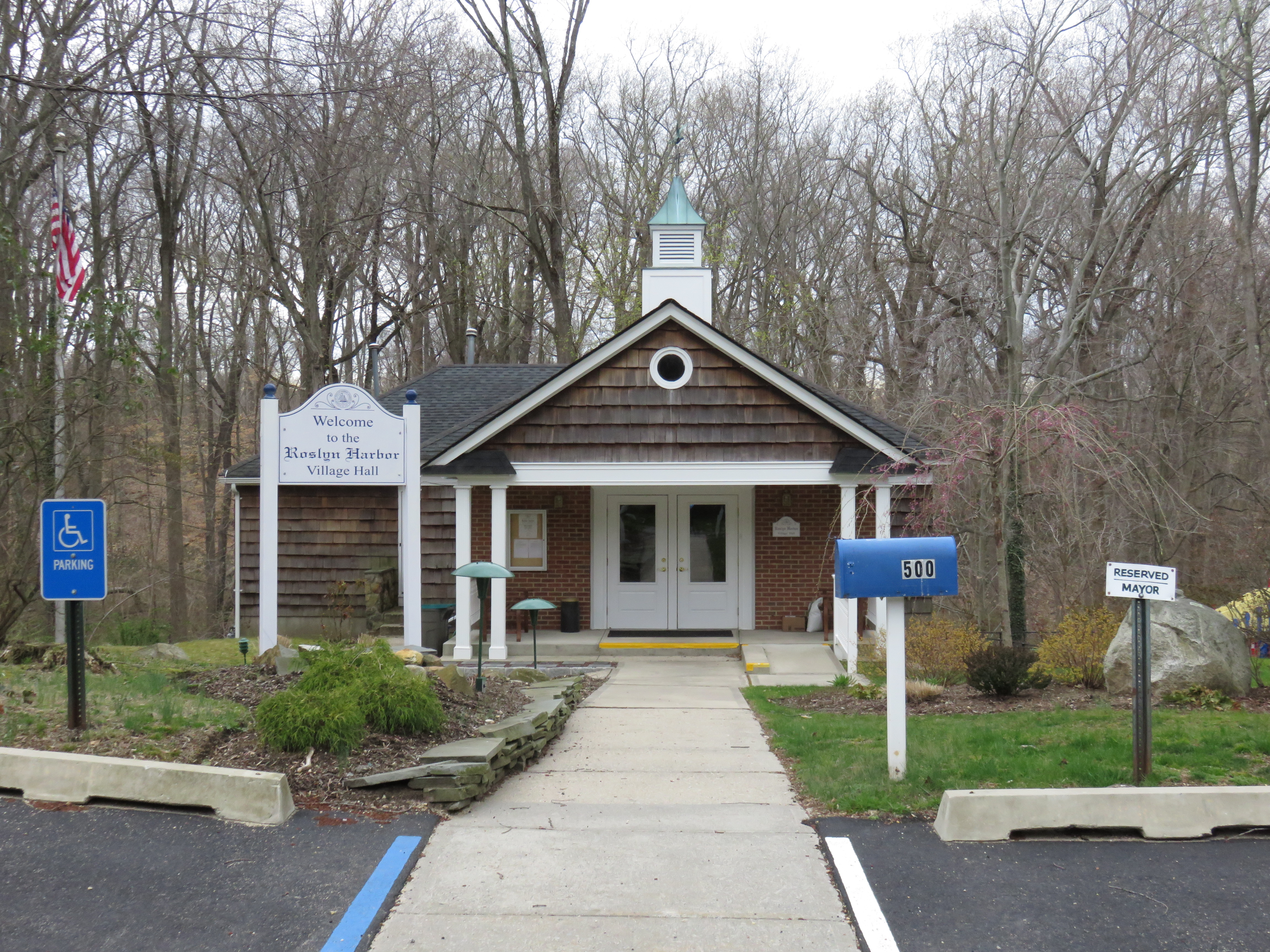 Roslyn Harbor Village Hall and Courthouse in Roslyn Harbor, New York in 2016